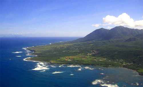 Aerial shot taken from the northeast, depicting the east coast of the island of Nevis, Saint James Windward Parish, Saint Kitts and Nevis, West Indies. Long Haul Bay in the foreground. The islands of Redonda and Montserrat are visible at the horizon.